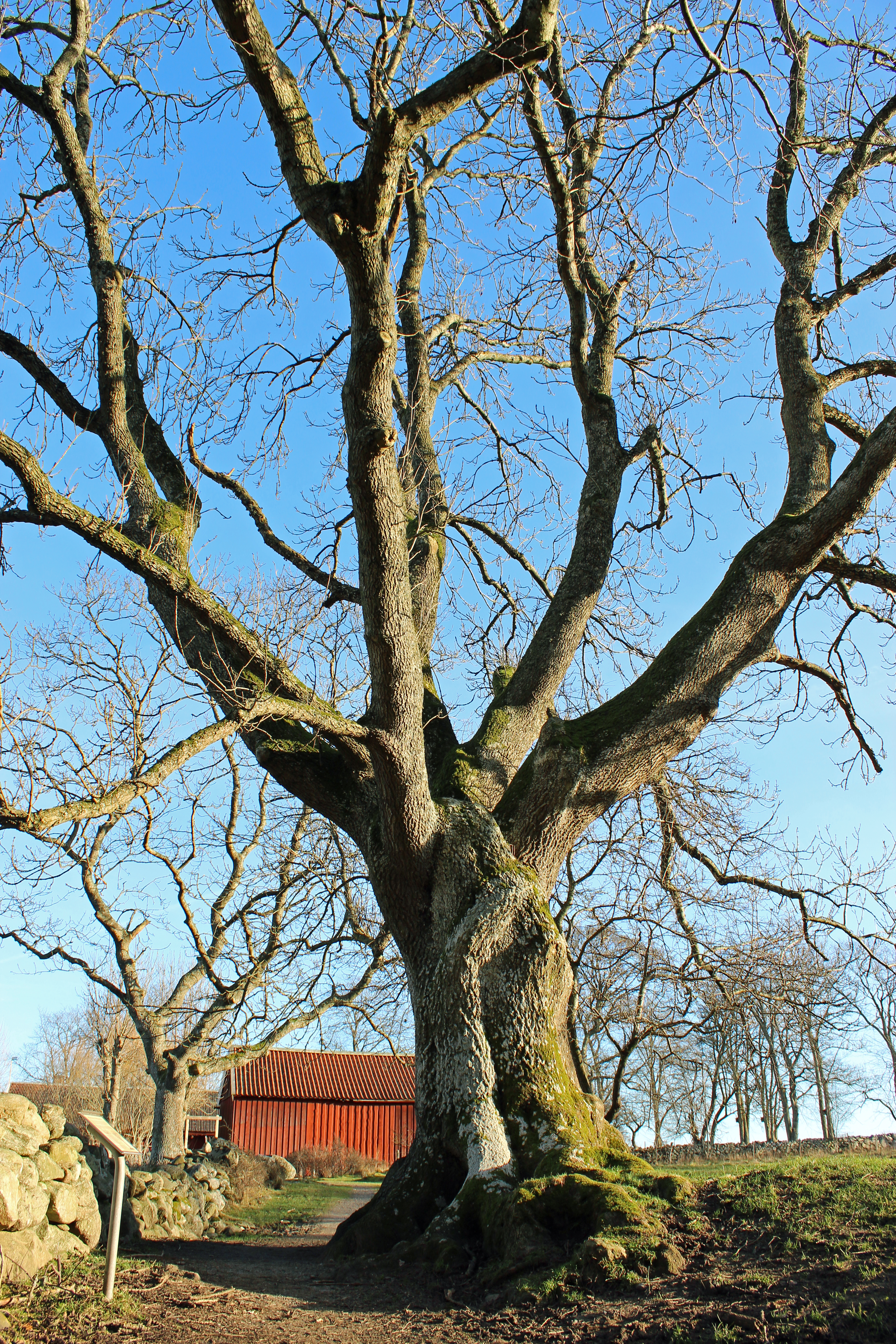 Mårtens trädgrotta (Mårten's tree cave) in Mårtagården, Onsala, Halland, Sweden.